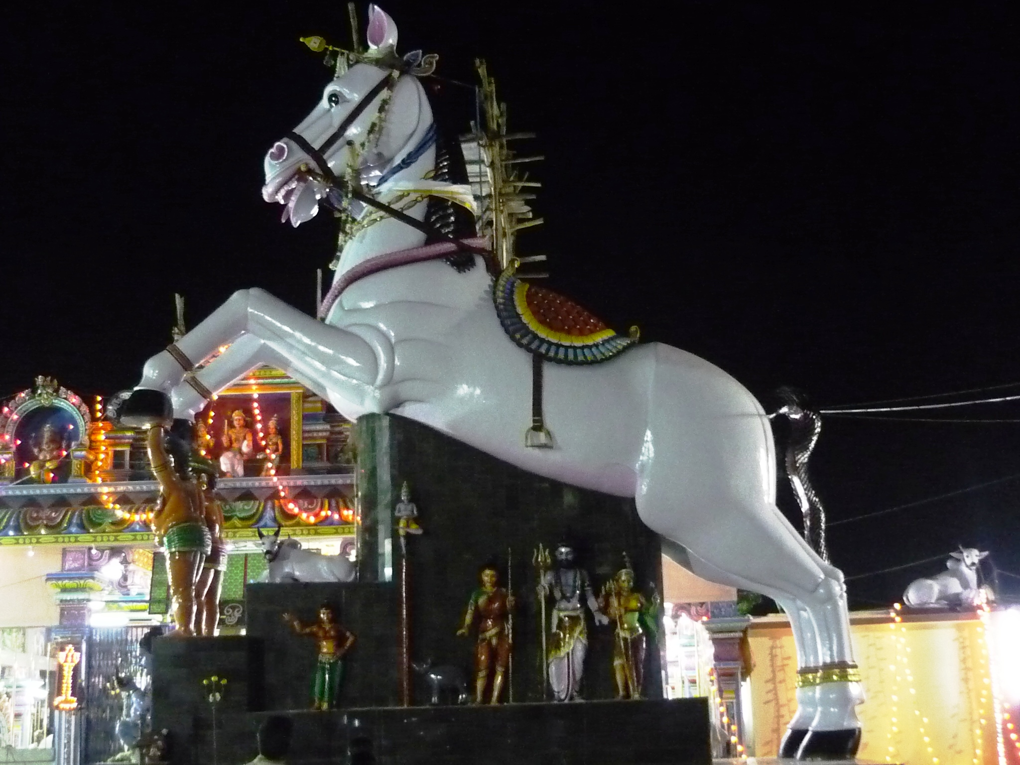 Kuthirai photo taken on the temple festival